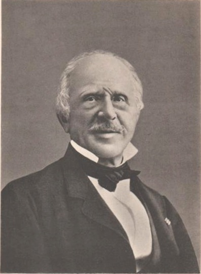 Heinrich Bernhard von Andlaw-Birseck (1802-1871) badischer Freiherr, Politiker und Katholikenführer